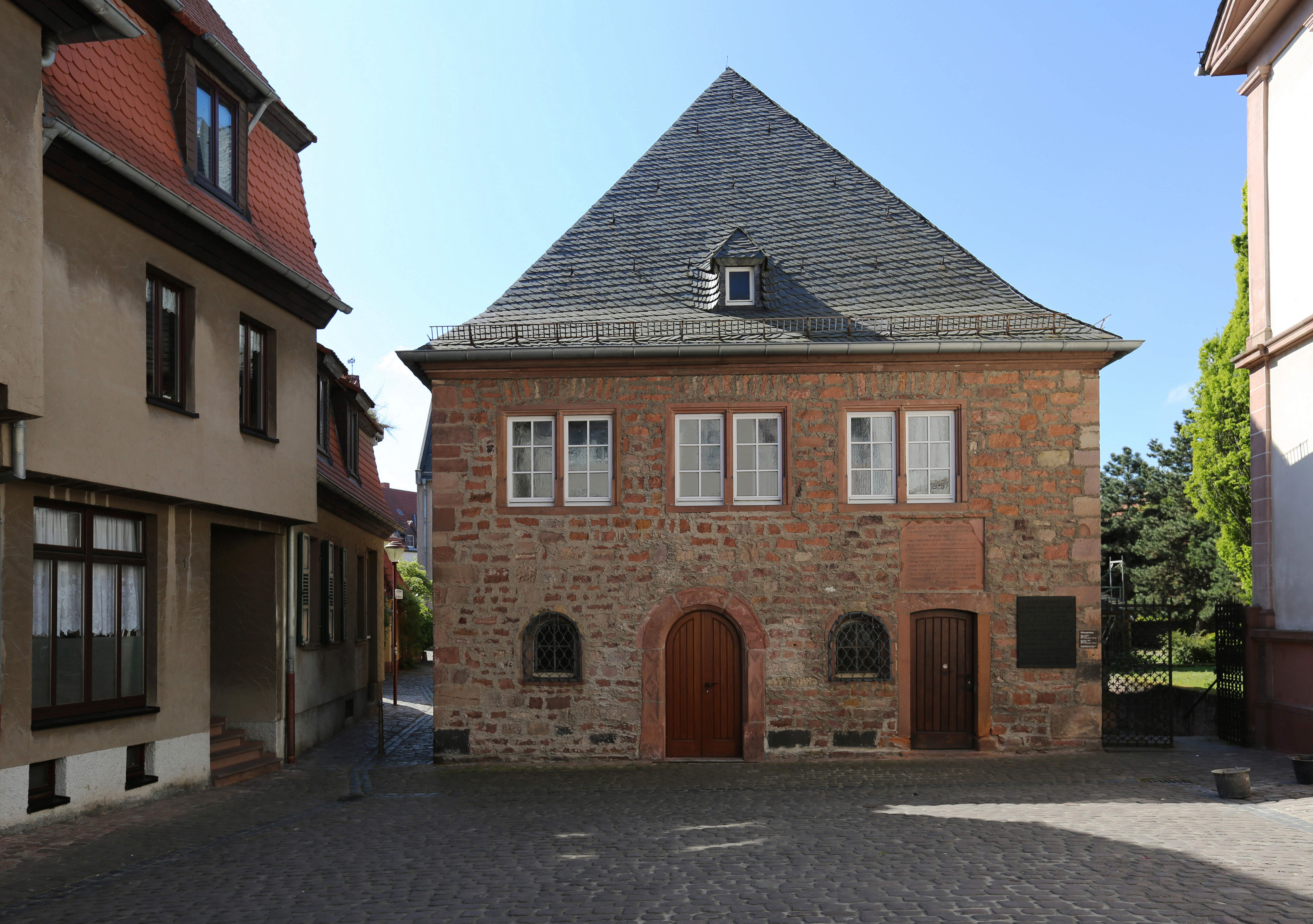 Part of the Synagogue Worms. An extension with adjoining rooms, separately for women. Location: 12, place of synagogue Worms, Rhineland-Palatinate, Germany